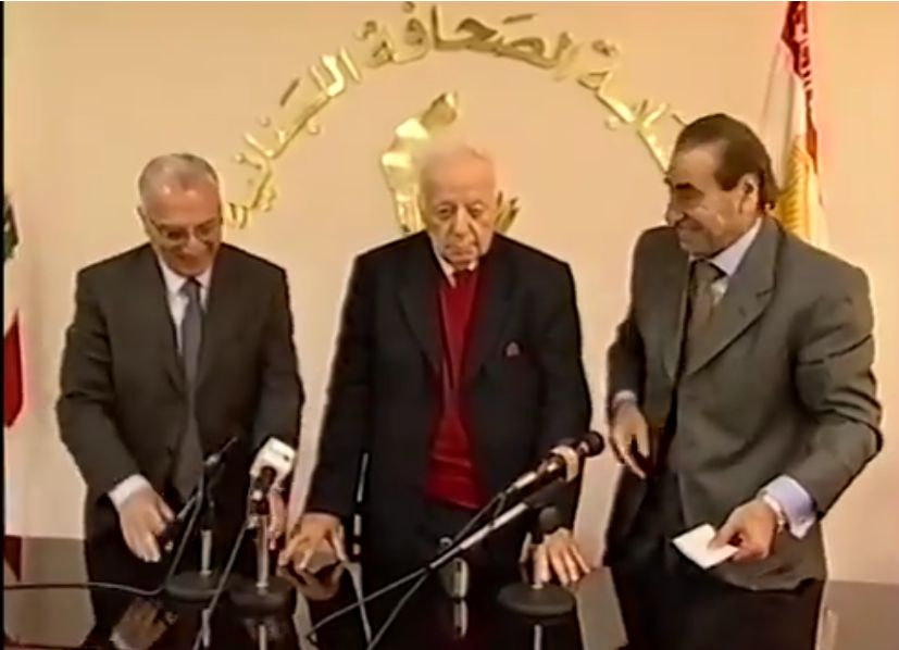 الشاعر عصام العبدالله يتسلم جائزة سعيد عقل